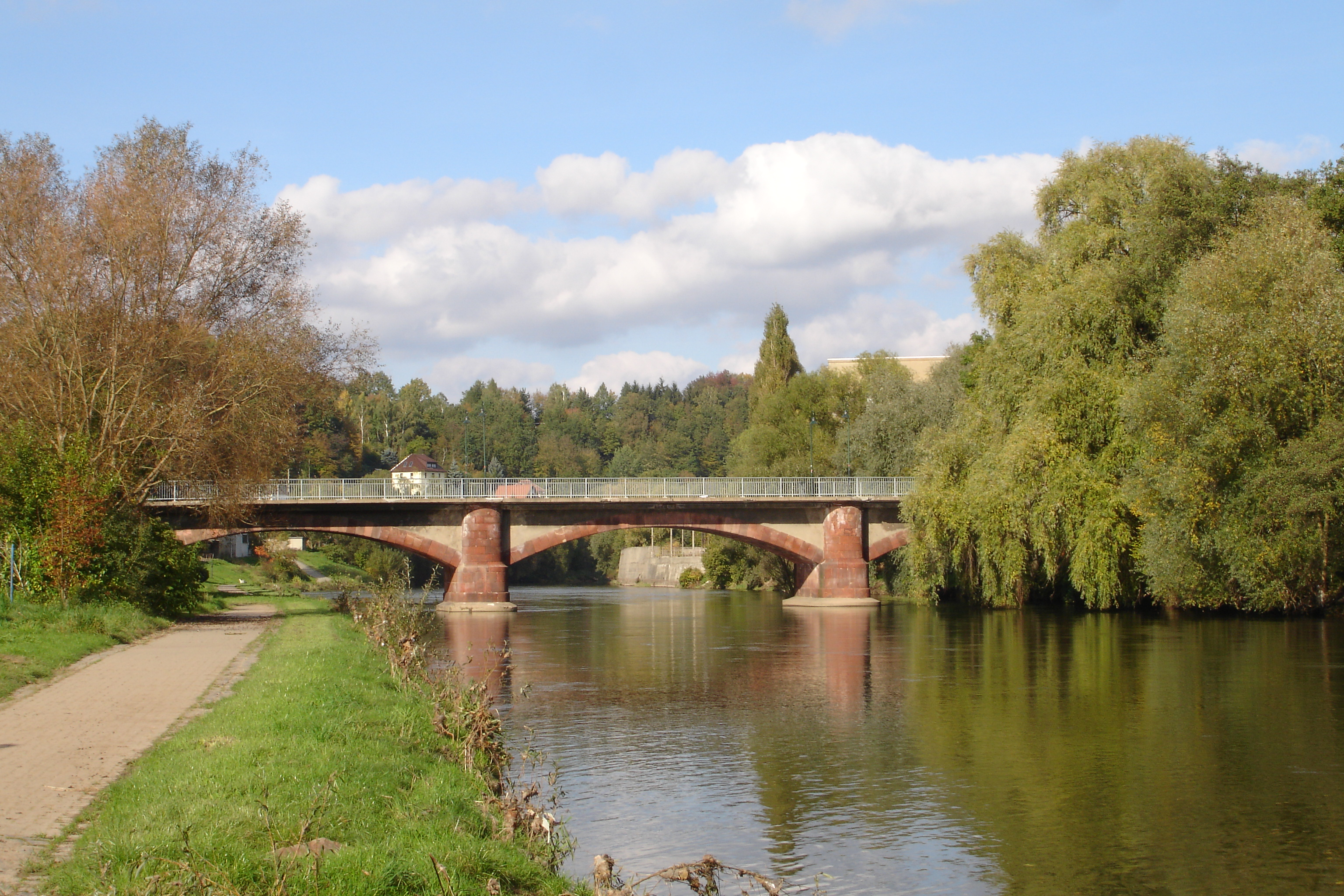 Bridge over the Zwickauer Mulde River